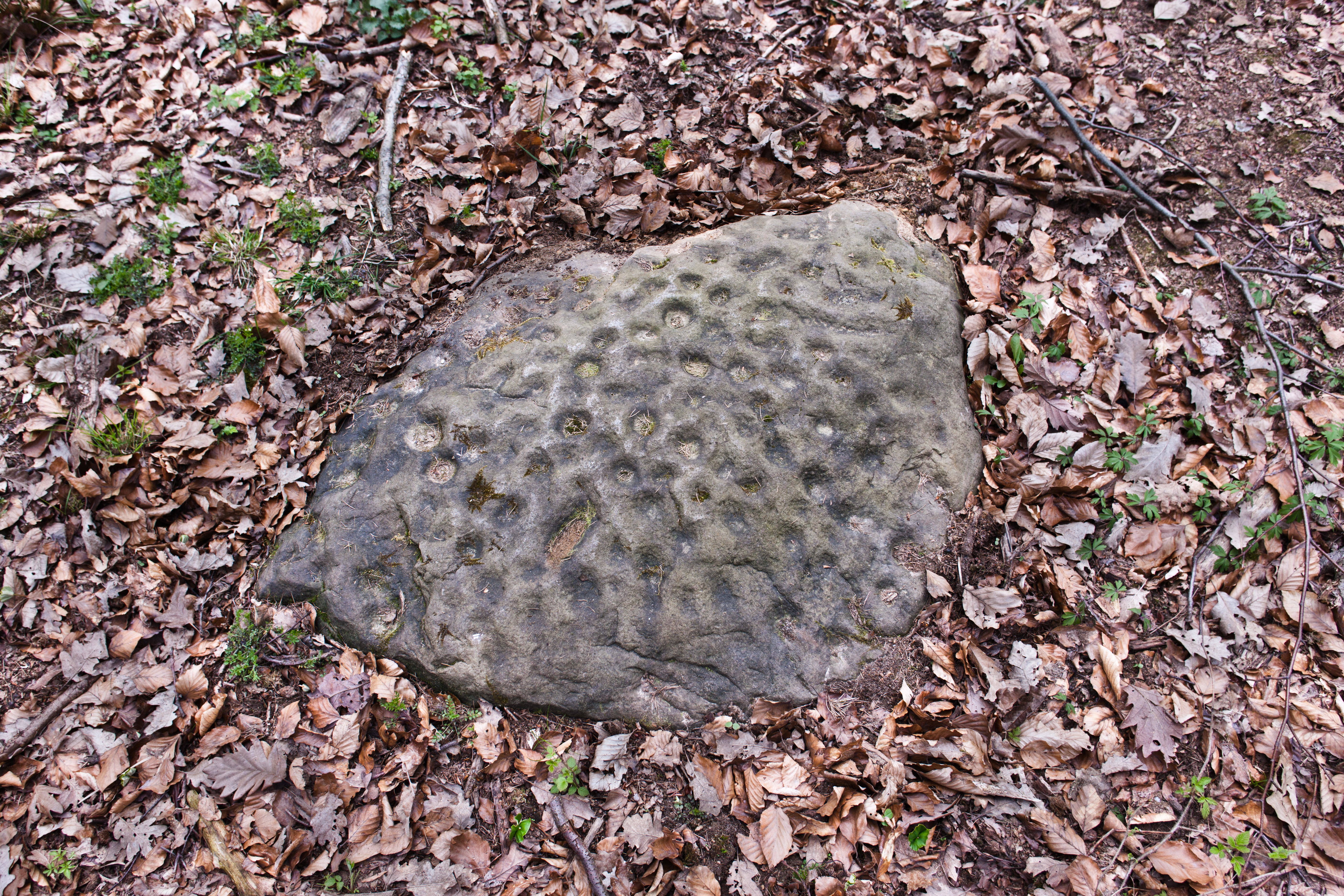 Detmeroder Opferstein, a stone used in Neolithic rituals, in Detmerode, Wolfsburg, Germany.